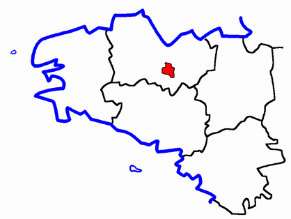 Description: Map for localisazion of cantons of Bretagne region in France Source: made by Hervé Tigier in april 2005 from another large map (published in 1990)